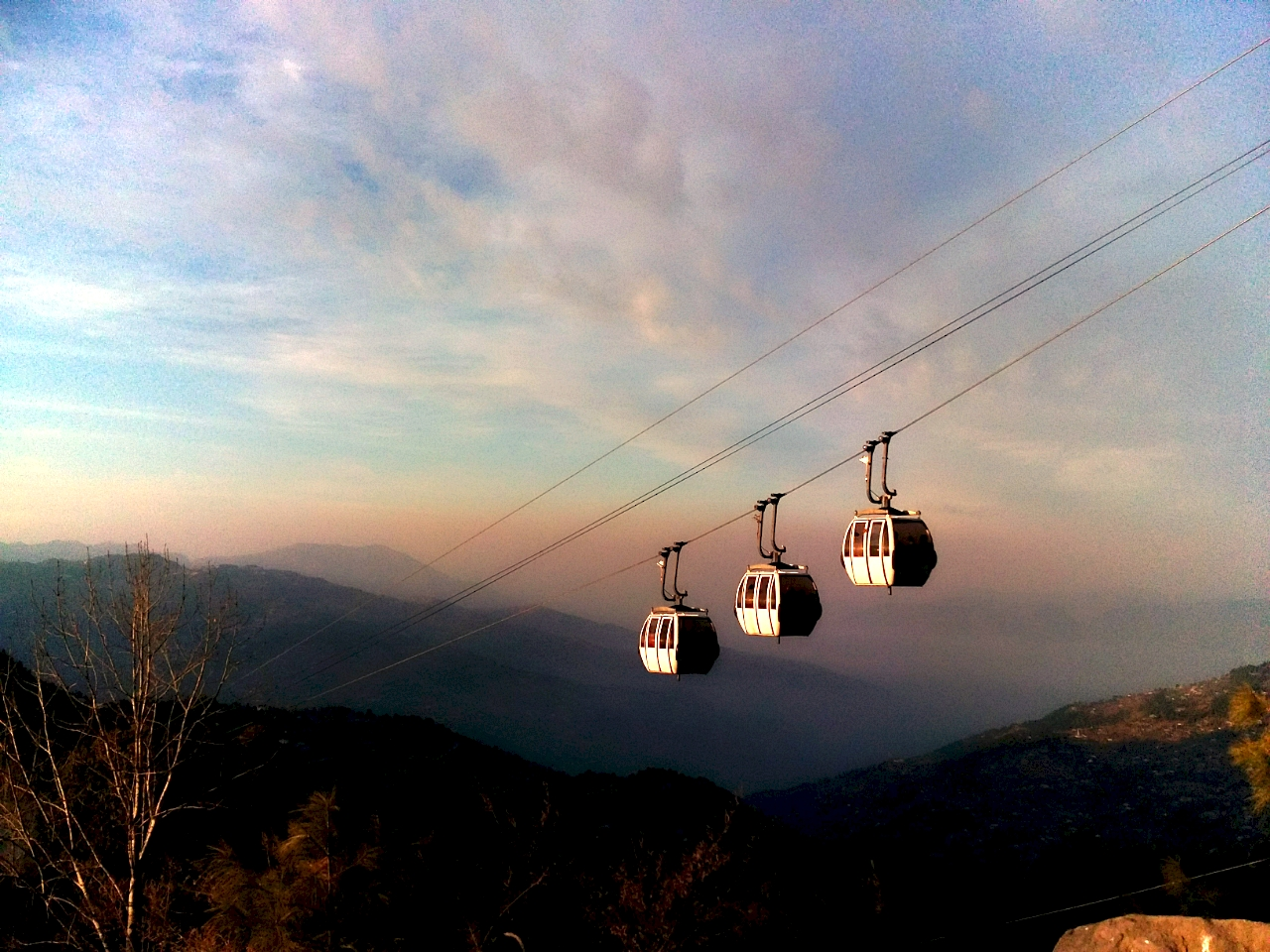 This image was taken in patriatta, murree, punjab, Pakistan.